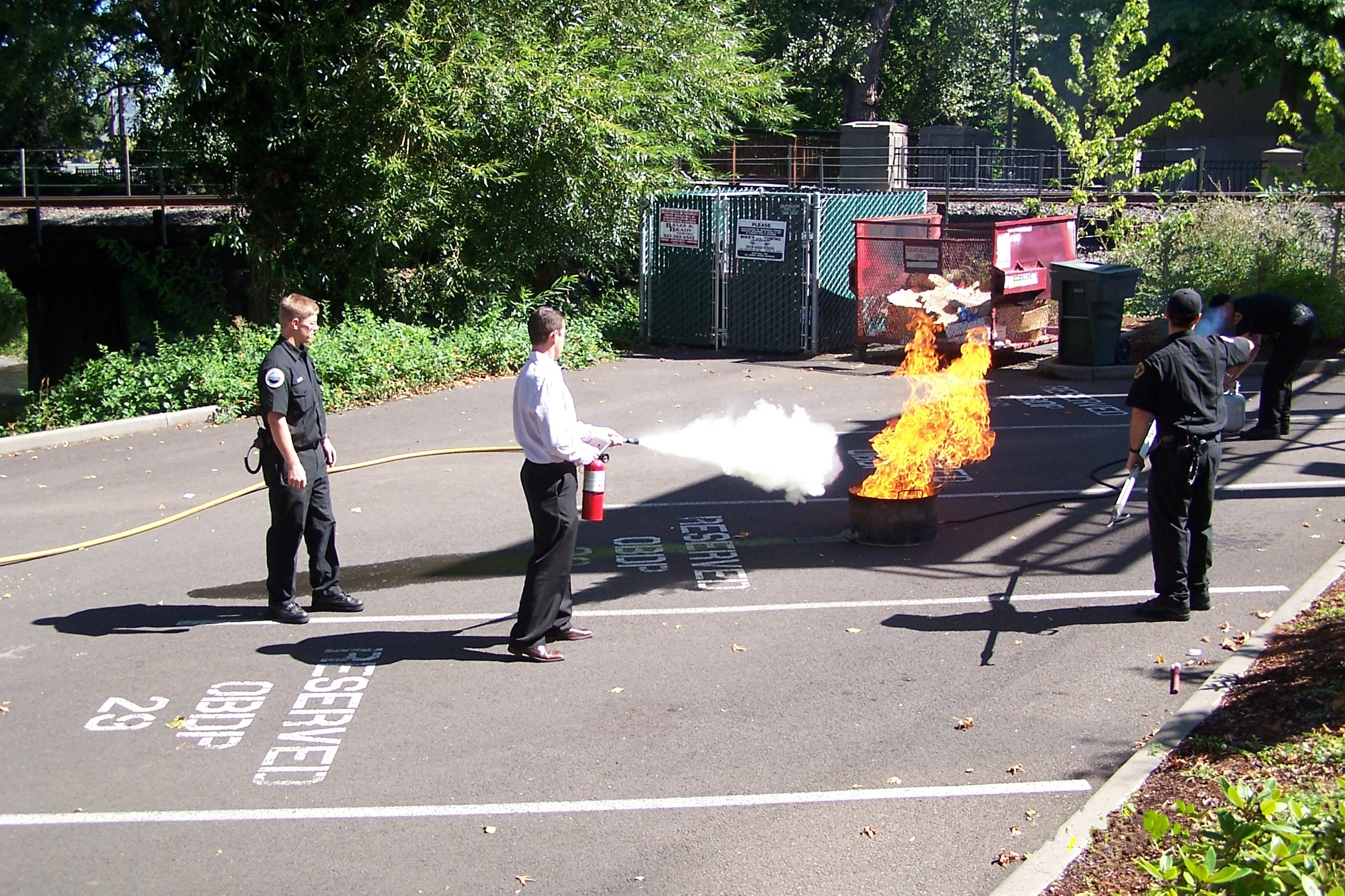 Fire and evacuation safety are also important. In this photo, the Salem Fire Department provided fire extinguisher training for Oregon Bridge Delivery Partners evacuation coordinators and evacuation assistants as part of the Emergency Action Plan, an Occupational Safety and Health Administration office safety program.